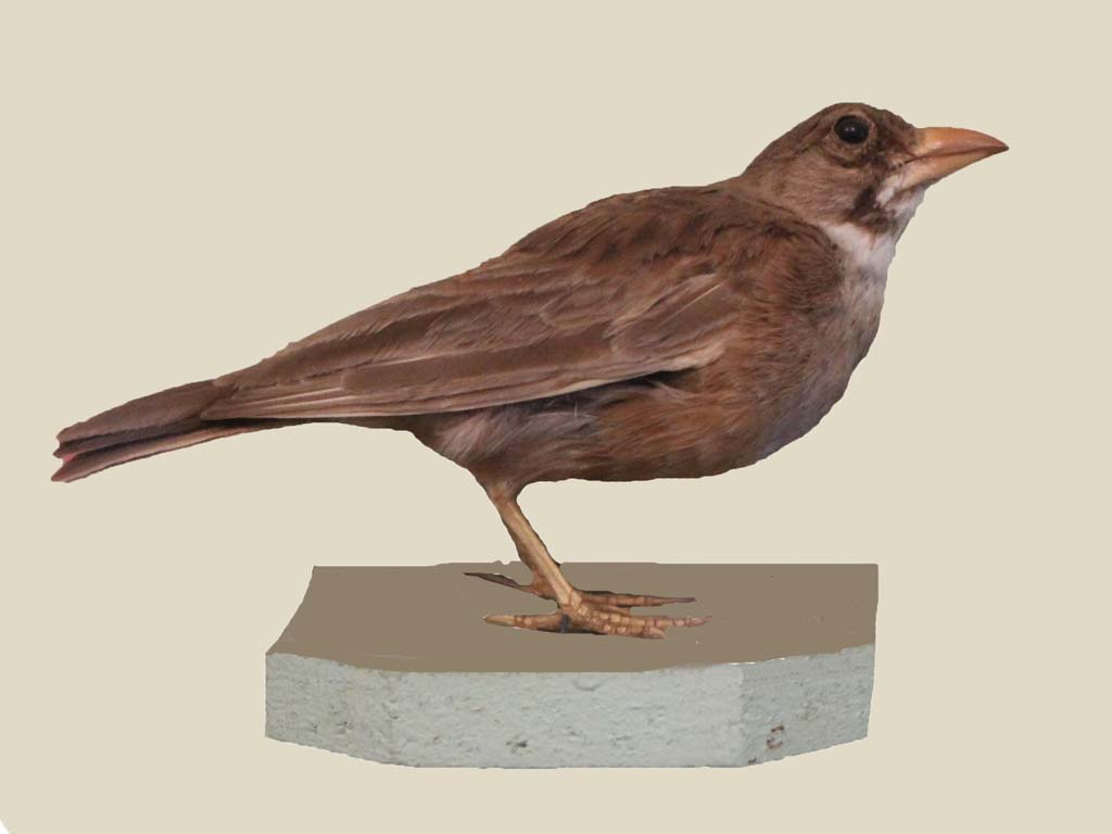 Masked Lark (Spizocorys personata). Photograph of a specimen at Nairobi National Museum in Nairobi, Kenya.